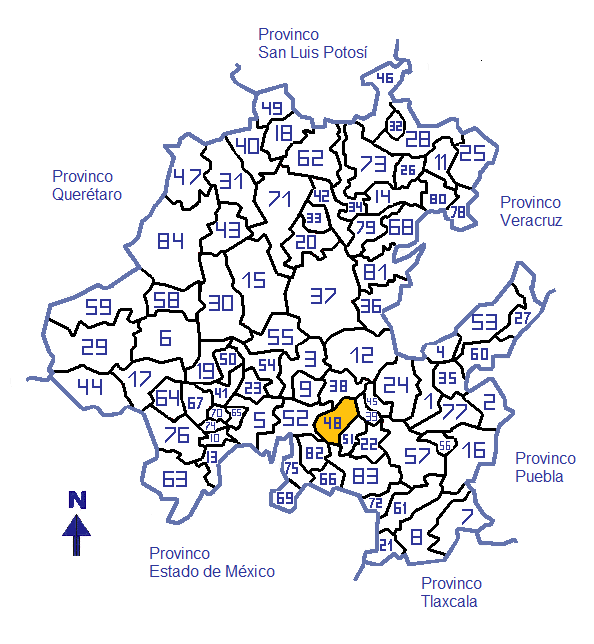 locator map